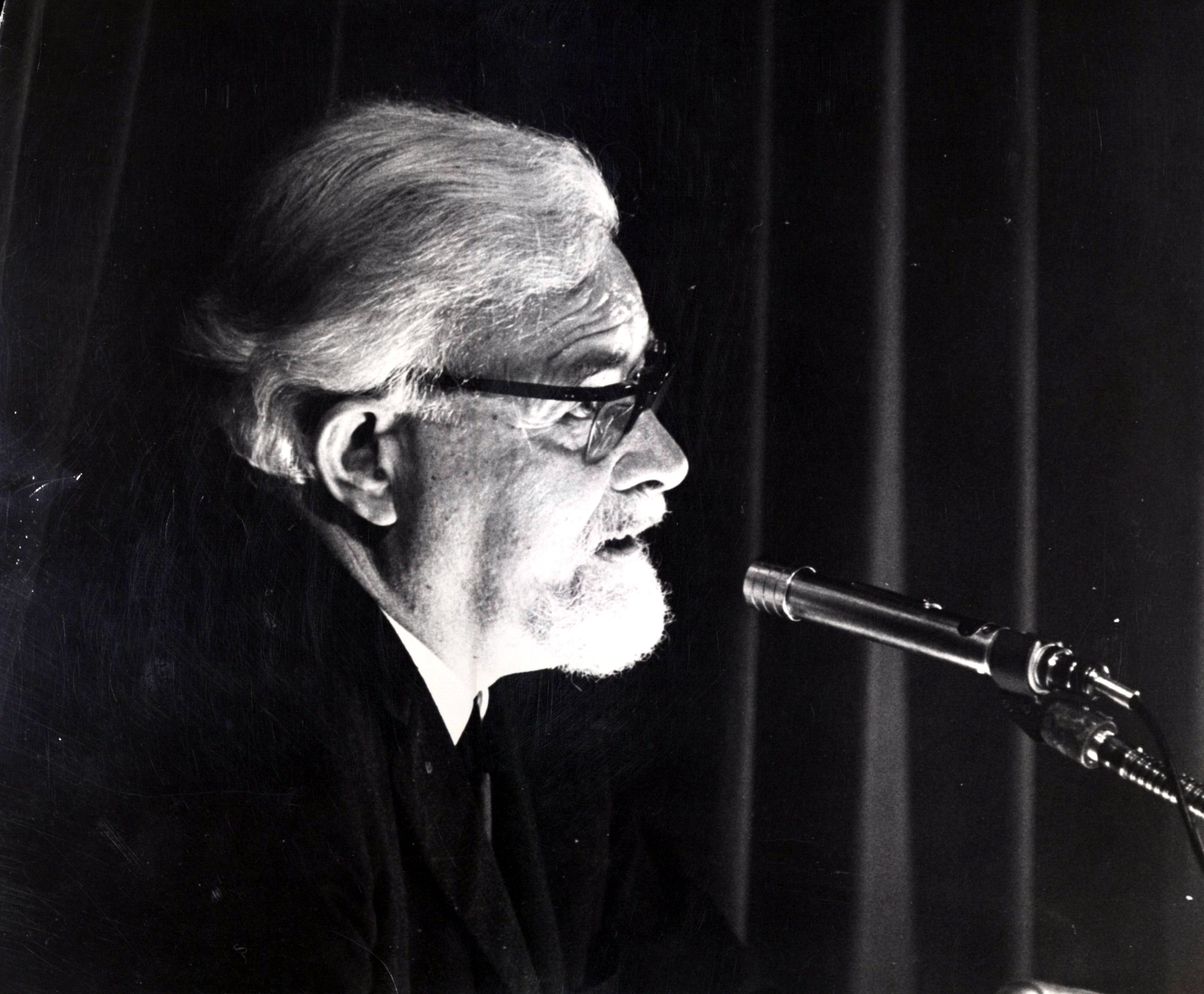 Photograph of popular novelist T. H. White lecturing on his Arthurian fiction, Box 64, Folder 34, Francis W. Sweeney, SJ, Humanities Series Director's Records, MS2002-37, John J. Burns Library, Boston College.